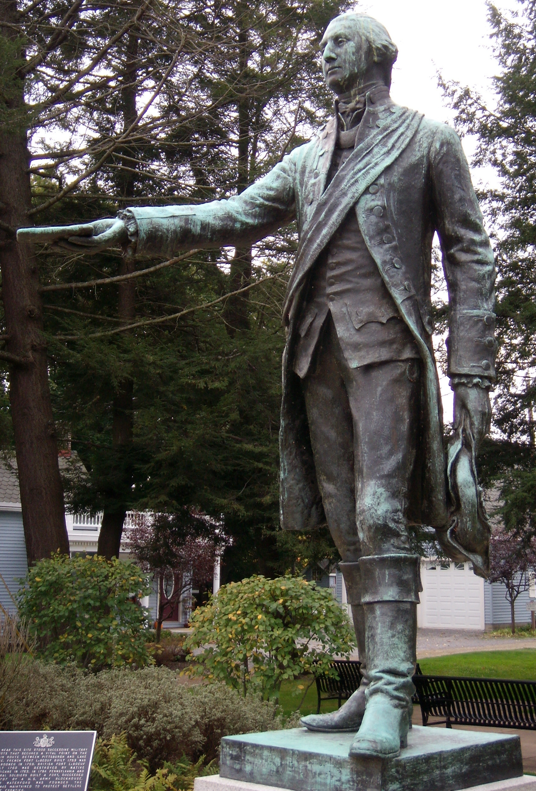 Photograph of a statue of George Washington in British uniform, a statue which stands in Waterford, Pennsylvania at the site of the old Fort Le Boeuf. The statue commemorates Washington's presentation of a message to the French at this site in 1753 demanding that the French leave the Ohio country.